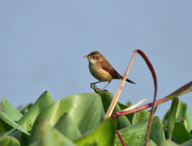 Paddyfield Warbler (Acrocephalus agricola) in Kolkata, West Bengal, India.